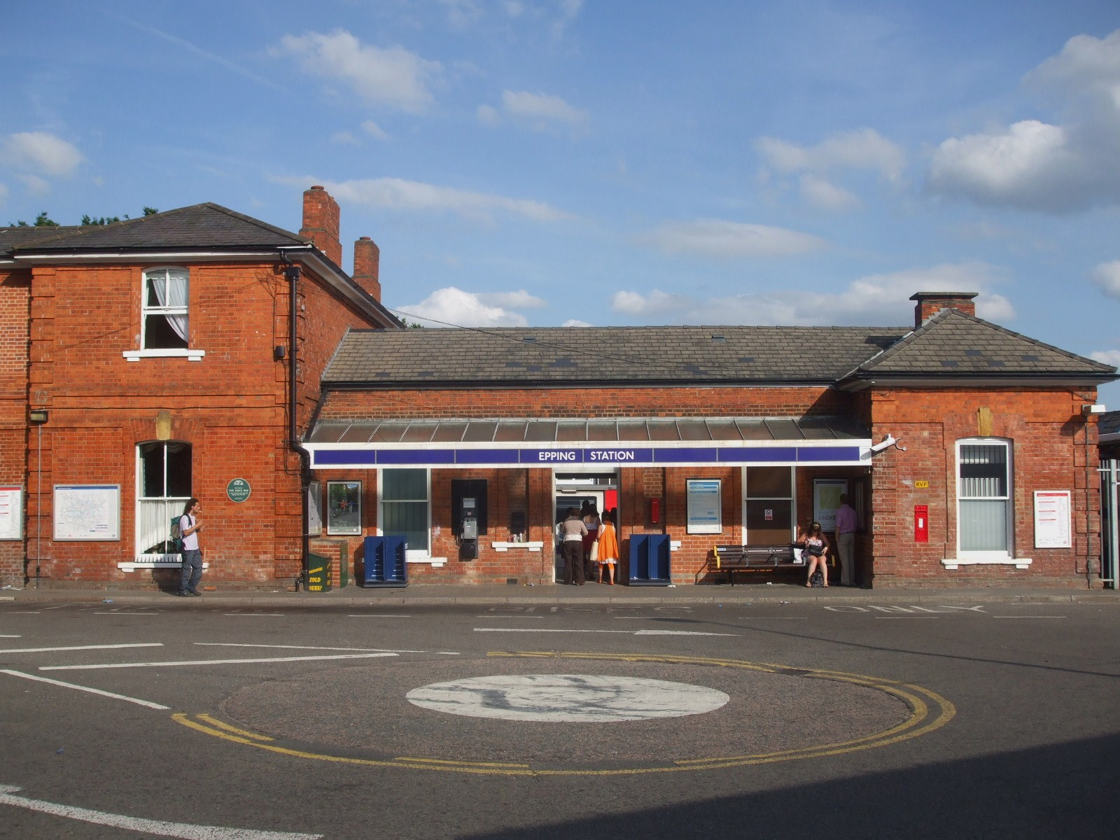 Epping tube station building